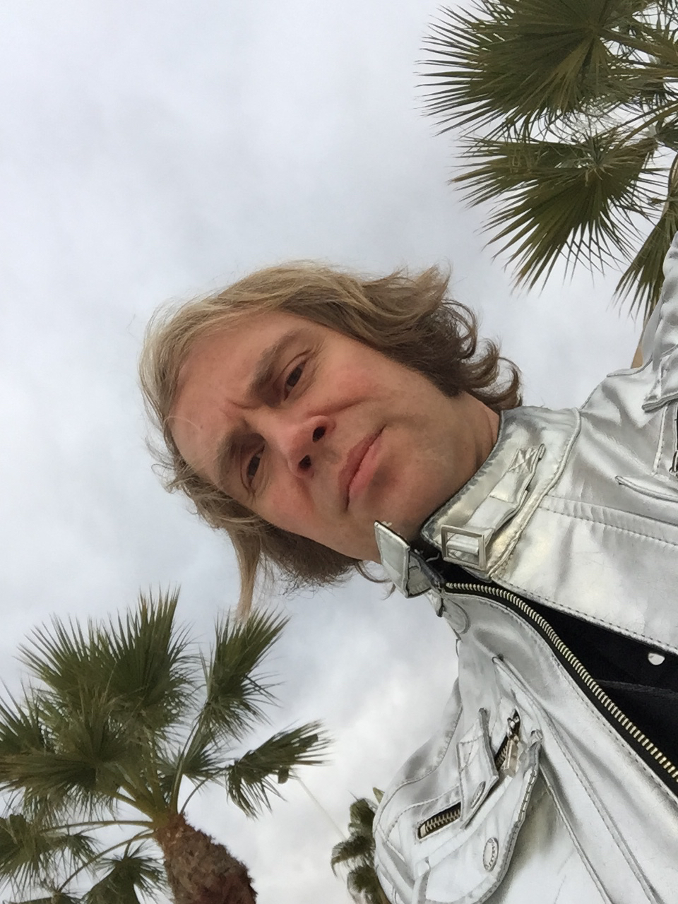 Janne Wallenius in Santa Pola